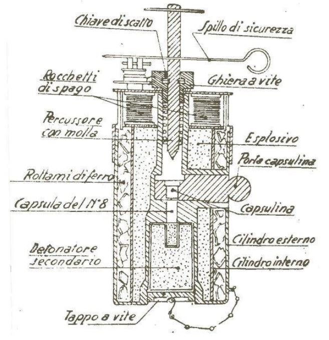 WWII italian land mine